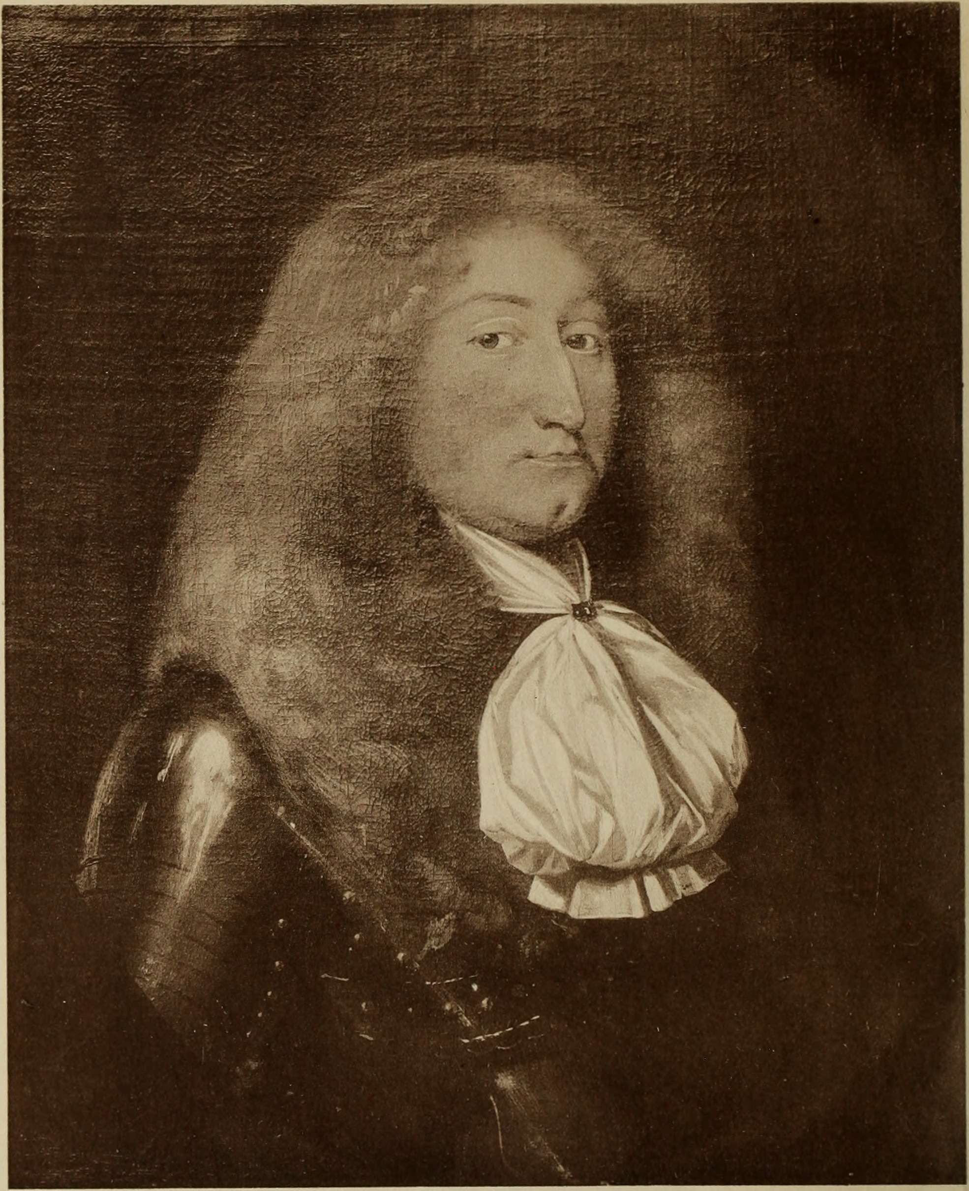 Title: An address from the gentry of Norfolk and Norwich to General Monck in 1660; facsimile of a manuscript in the Norwich Public Library. With an introduction by Hamon le Strange and biographical notes by Walter Rye Year: 1913 (1910s) Authors: Norfolk (England). Gentry Albemarle, George Monck, Duke of, 1608-1670 Le Strange, Hamon, 1840-1918 Norwich (England). Gentry Subjects: Publisher: Norwich : Jarrold Text Appearing Before Image: ' Text Appearing After Image: Sir Nicholas LEstrange, Bt. 1632-1669. ADDRESS TO GENERAL MONCK 55 KING, George (B3). KING, Henry (C2). Was on the Committee of the Associated Countiesin 1643 ; was M.P. for Norfolk 1653. — King was on theCompounding Committee (see R. H. Masons History of Norfolk,p. 315), and in 1654 on the Committee as to Scandalous Ministers. KING, Tho. (Fl). Perhaps the Thos. King, of Lyng, who disclaimedarms in 1664. *LAWRENCE, John (Bl). He was of Wramplingham. Sheriff ofNorwich 1659 and Mayor 1669 ; died 1681. *LE GROS, Tho. (A5). Son of Sir Chas. le Gros, of Crostwight, whohad been High Sheriff in 1627.LE NEVE, Wm. (B2). Sir Wm. le Neve, of Aslacton, was the well-known Norfolk Herald. He appears as a Royalist Compounder, anddied of unsound mind in 1661.LESTRANGE, Nichs. (A2). Sir Nicholas LEstrange, 2nd son of SirNichs. LEstrange, Bt., and Anne Lewkenor, of Hunstanton. Born1632, succeeded his brother, Sir Hamon, as third baronet; married1656 1st Mary, daughter of John Coke, of Holkham, she di